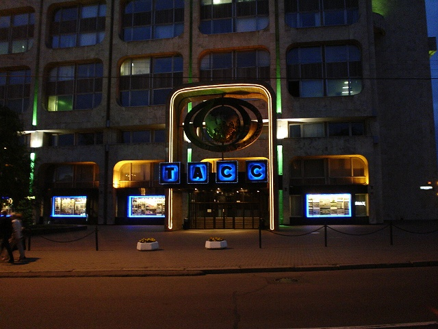 TASS Building